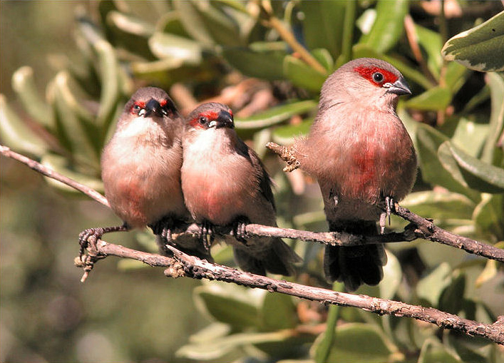 Young Common Waxbills Estrilda astrild